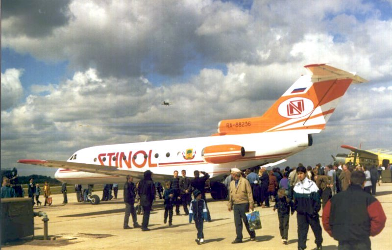 Business class Yak-40 in Lipetsk, 1997